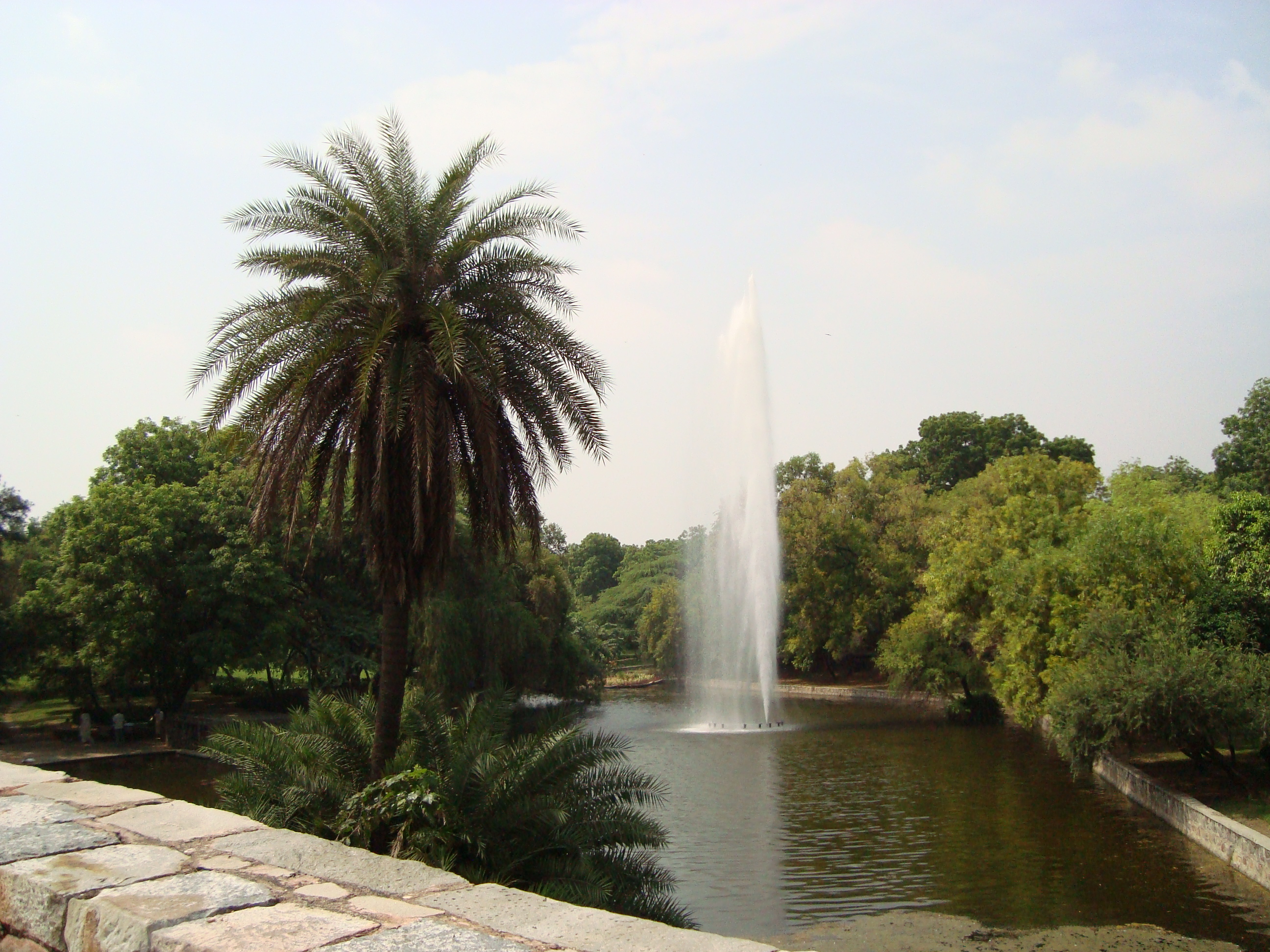 Water fountain in Lodi Gardens in Delhi, India